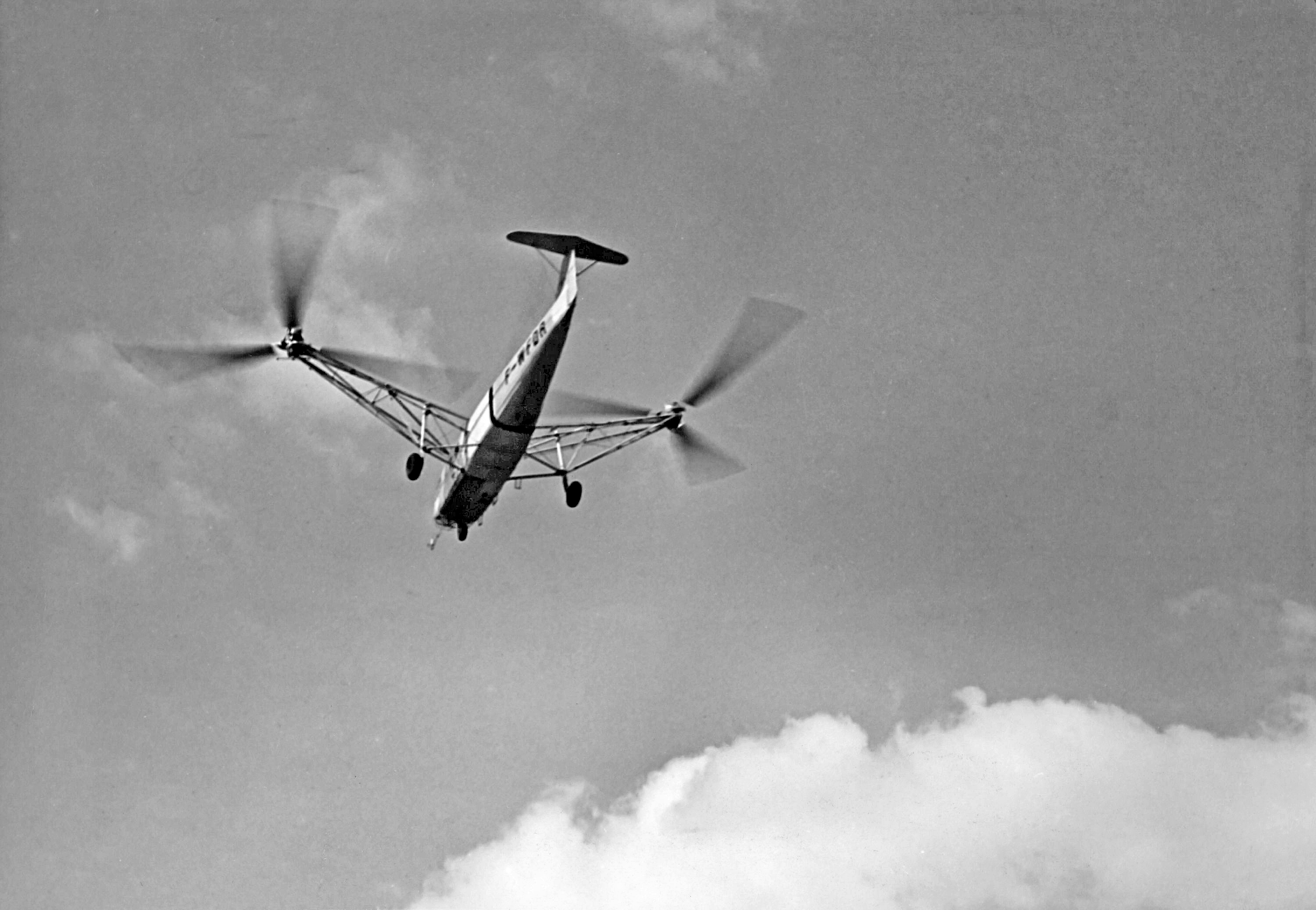 Catalog #: 12_00087550 Manufacturer: SNCASE Designation: SE 3000 Notes: France Repository: San Diego Air and Space Museum Archive